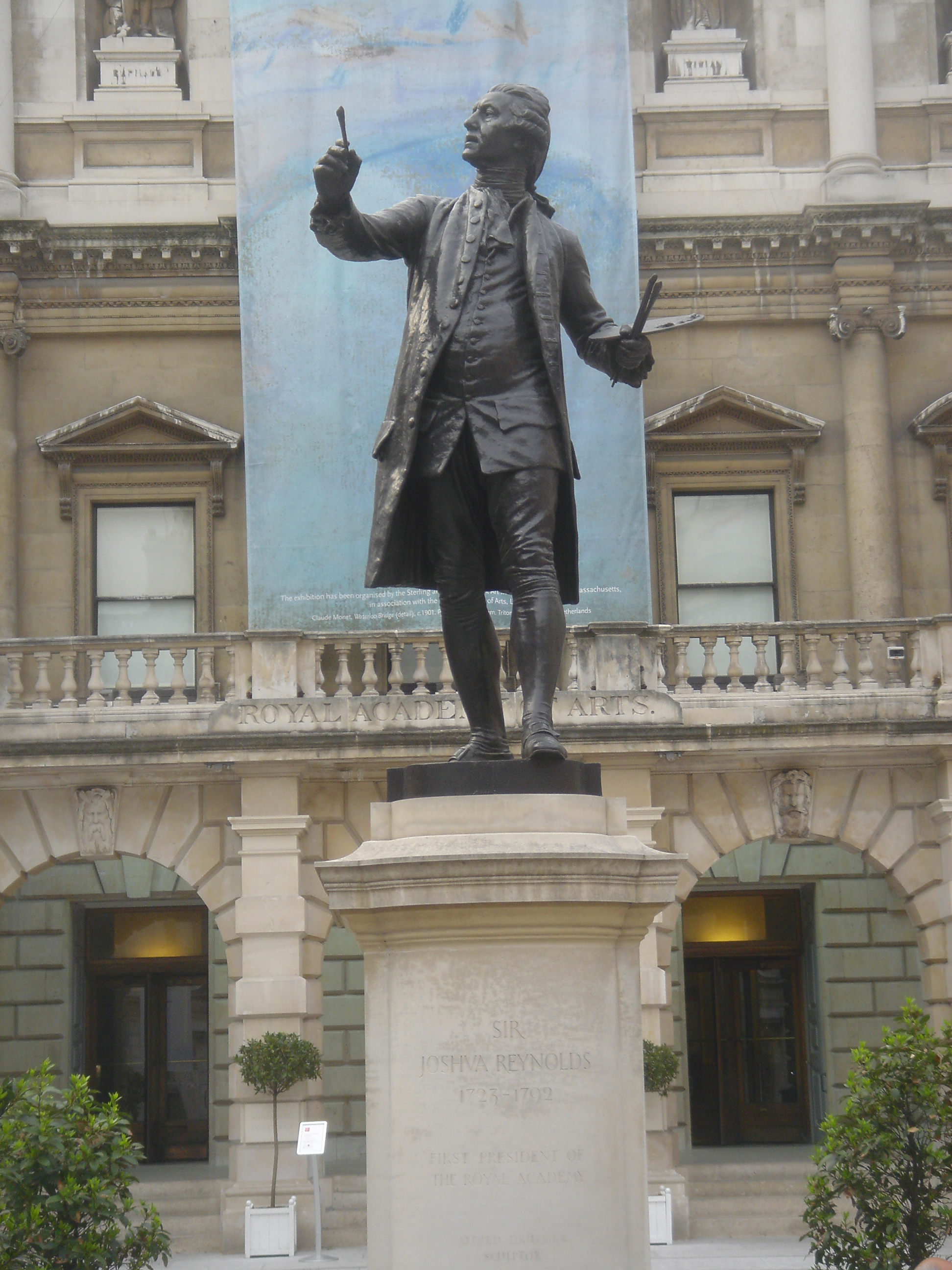 Sir Joshua Reynolds Statue in court of Royal Academy of Arts, London